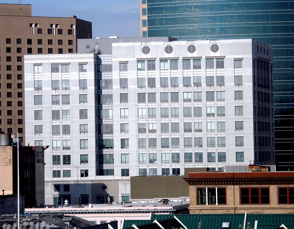 The Office of the President of the University of California is located on the top floor of this office building in downtown Oakland, California. The same building also houses many other important UC offices. Photographed from the top level of the Alcopark Garage on the morning of January 19, en:2006 by user Coolcaesar.